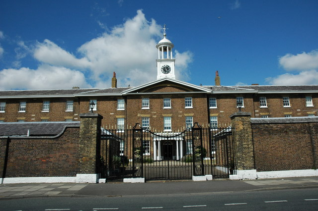 Admiralty Mews, Deal This building is the former Royal Marines School of Music in Deal.